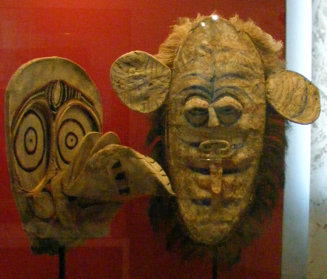 Masks from Oceania - detailed description will follow soon - (exhibit at the National Museum of Ethnology Munich)